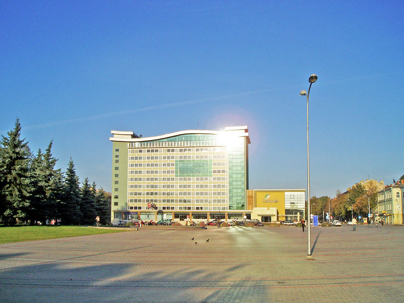 Vienibas square at day. Daugavpils. Latvia. 2007.